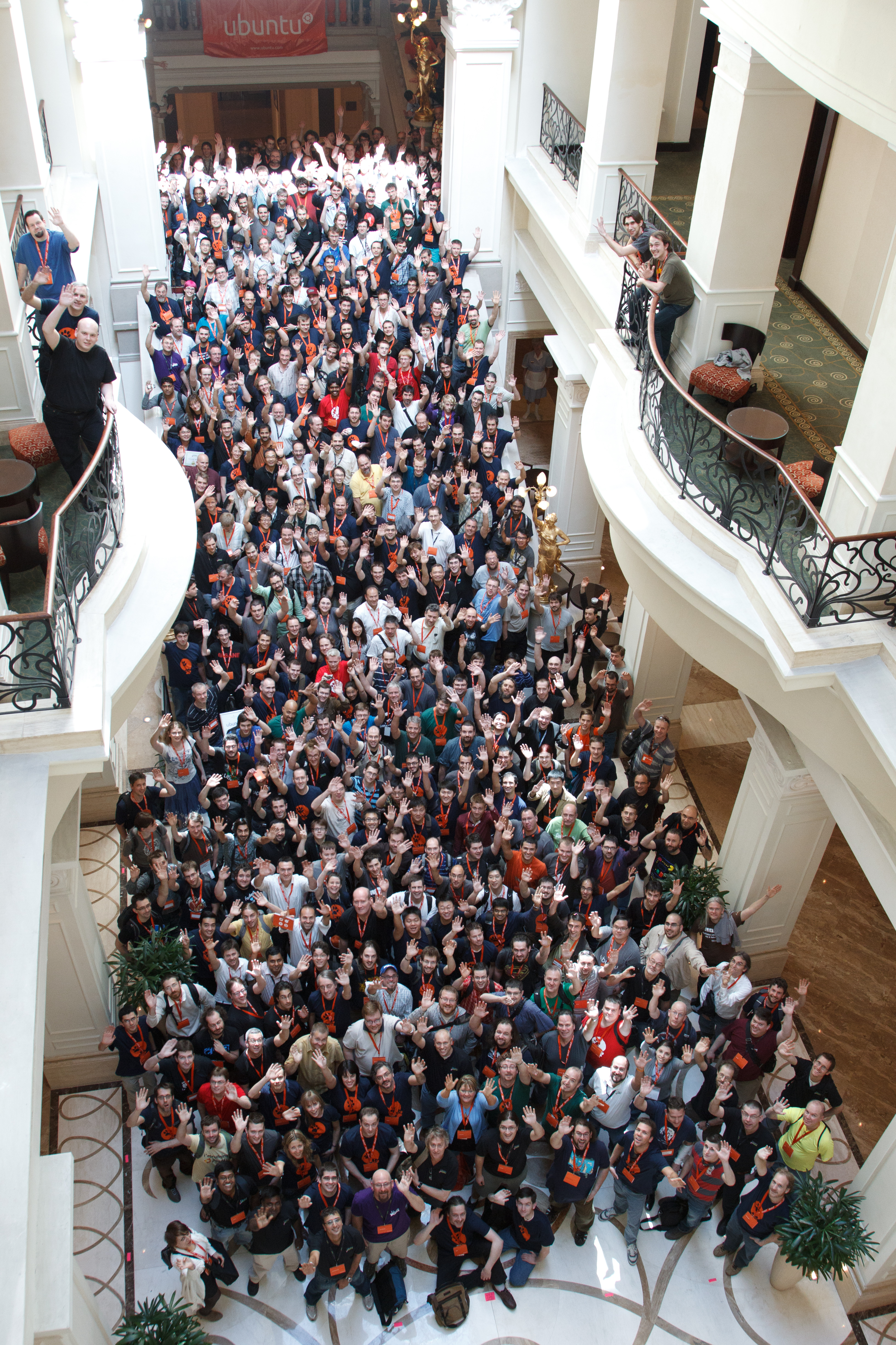 Picture from Ubuntu Developer Summit Oneiric on Budapest, Hungary